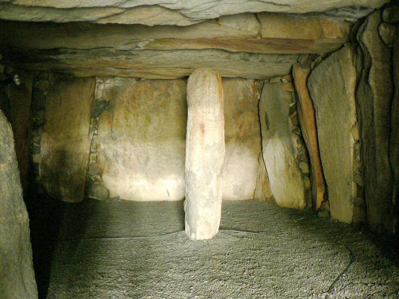 The inside of a passage grave that lies half a mile from Bordeaux Harbour on the Channel Island of Guernsey. Open to the public during daylight hours. Photograph taken under natural light conditions from the open entrance door with a relatively long exposure (longer would have been better). On the ceiling to the right of the pillar is a portrait carved into the stone that looks crudely done under artificial light from an electric bulb nearby but brilliantly artistic when photographed under natural light from the doorway on a long exposure, making one wonder whether it was intended for people to spend long periods inside this tomb in order to let their eyes adjust before being confronted by the ghost of its occupant!